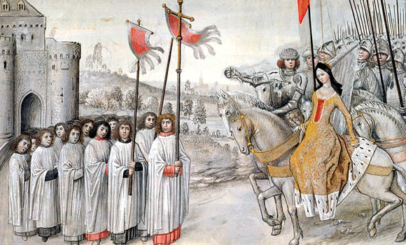 This computer enhanced image is of Queen Isabella riding triumphantly into Oxford in 1327. It comes from the 'Chronicle of the Counts of Flanders' made in the 15th Century by an artist who worked for Mary of Burgundy. Ms 659 f.195. Queen Isabella (1292-1358) of France and her son Edward III (1312-77) are welcomed in Oxford in 1326, 1477 (vellum) Creator Master of Mary of Burgundy, (fl.1469-83) Nationality Flemish Description Chronicles of the Counts of Flanders; Location By kind permission of Lord Leicester and the Trustees of Holkham Estate, Norfolk Medium vellum Date 1477 (C15th)